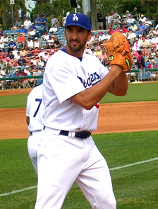 Eric Gagne (right) and Kelly Wunsch warm up to pitch against the Washington Nationals in a spring training game at Dodgertown in Vero Beach, Florida, on March 19, 2006.